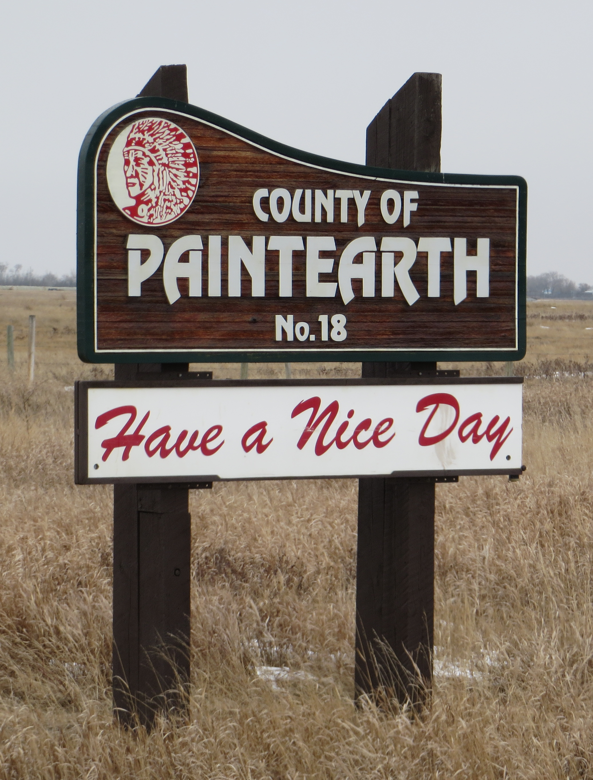 This is a photo of the sign that marks the border of the County of Paintearth No. 18, Alberta, Canada, taken in February 2016.